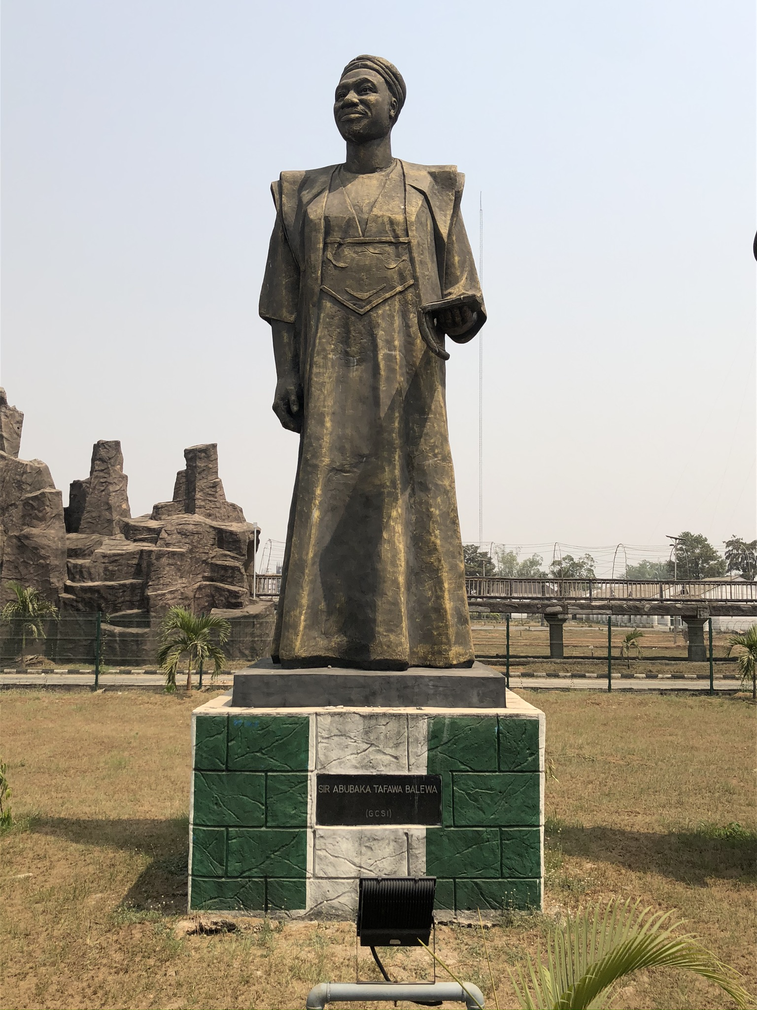 Statue Tourist attraction in Owerri Imo State